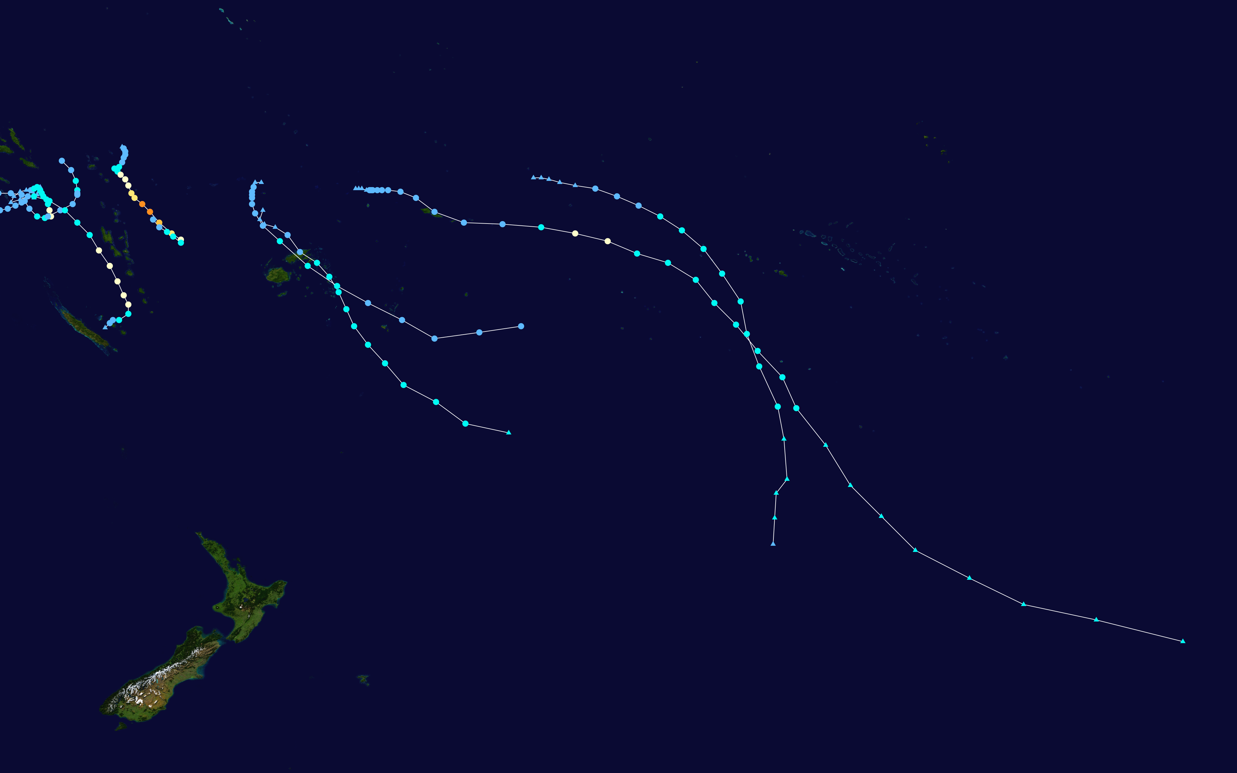 This map shows the tracks of all tropical cyclones in the 2006-07 South Pacific cyclone season. The points show the location of each storm at 6-hour intervals. The colour represents the storm's maximum sustained wind speeds as classified in the Saffir-Simpson Hurricane Scale (see below), and the shape of the data points represent the type of the storm. Saffir–Simpson scale Tropical depression≤38 mph≤62 km/h Category 3111–129 mph178–208 km/h Tropical storm39–73 mph63–118 km/h Category 4130–156 mph209–251 km/h Category 174–95 mph119–153 km/h Category 5≥157 mph≥252 km/h Category 296–110 mph154–177 km/h Unknown Storm type Tropical cyclone Subtropical cyclone Extratropical cyclone / Remnant low / Tropical disturbance / Monsoon depression